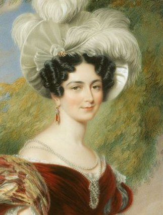 Victoria duchess of Kent in a painting by Sir George Hayter